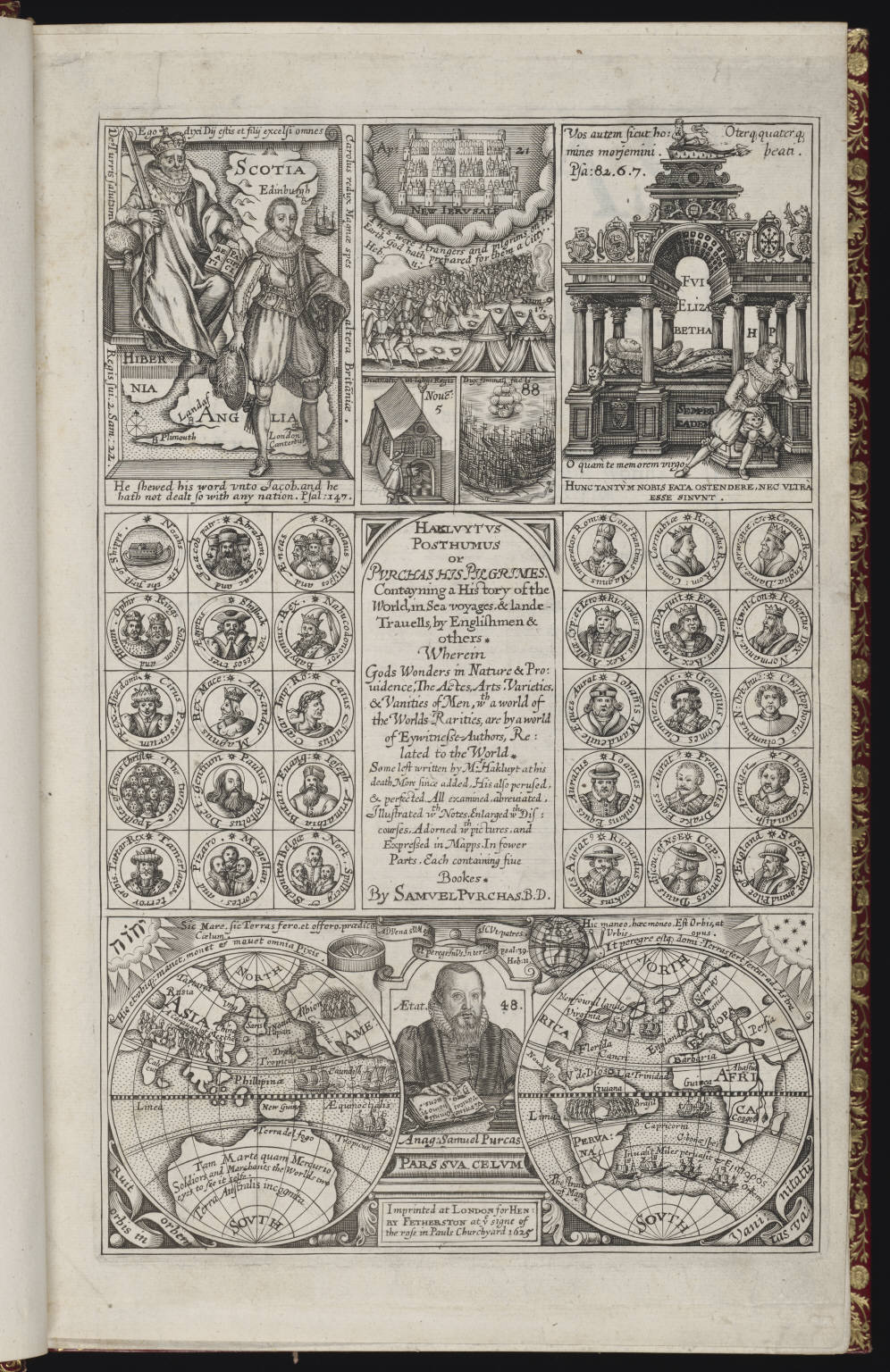 "Purchas His Pilgrimes," title page of the work by the British travel writer Samuel Purchas, printed by William Stansby at London, 1625. Courtesy of the Monroe Wakeman and Holman Loan Collection of the Pequot Library Association, on deposit in the Beinecke Rare Book and Manuscript Library, Yale University, New Haven, Connecticut.